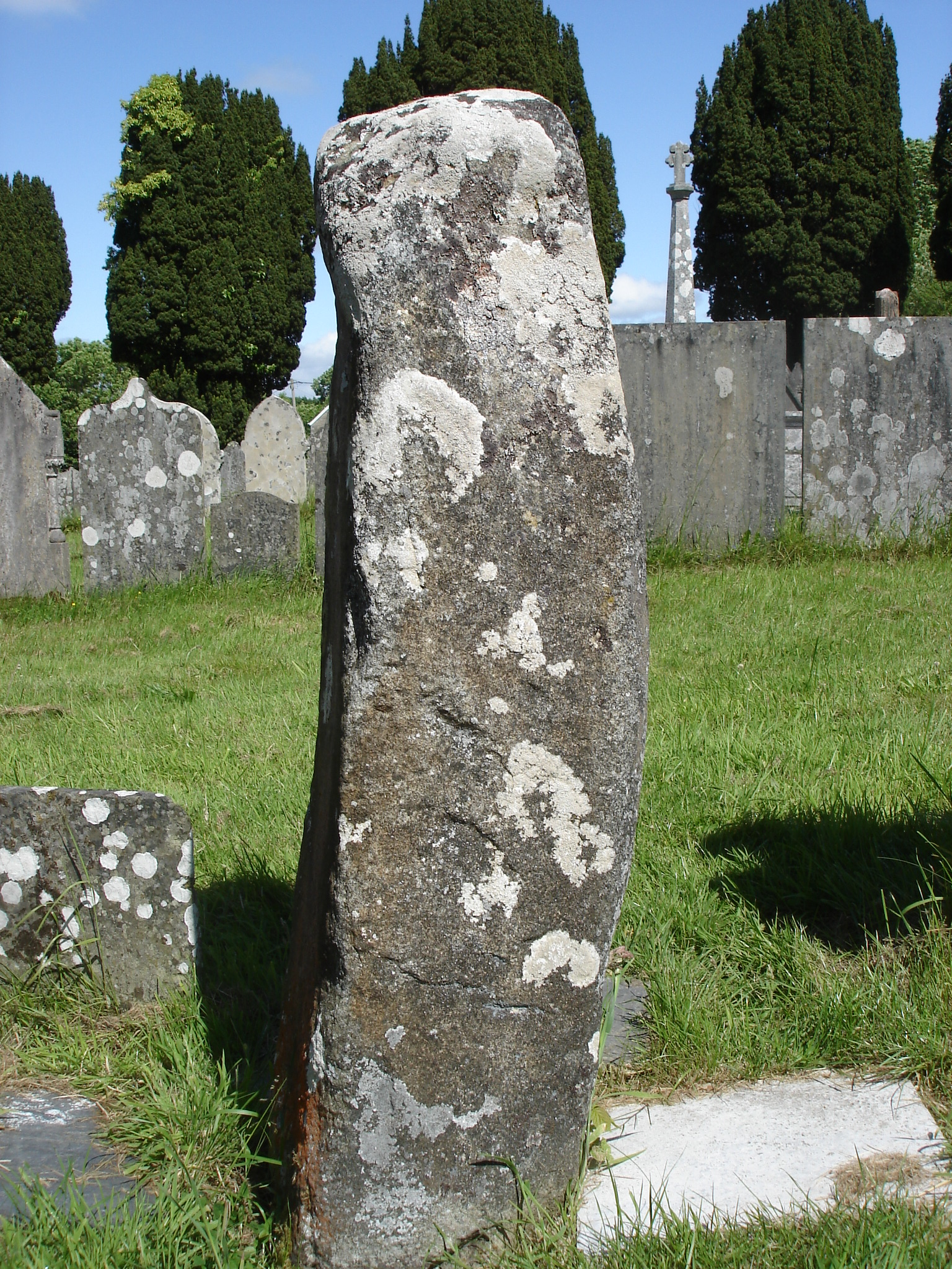 Ogham Stone in St Llawddog's churchyard, Cilgerran, Pembrokeshire, Wales